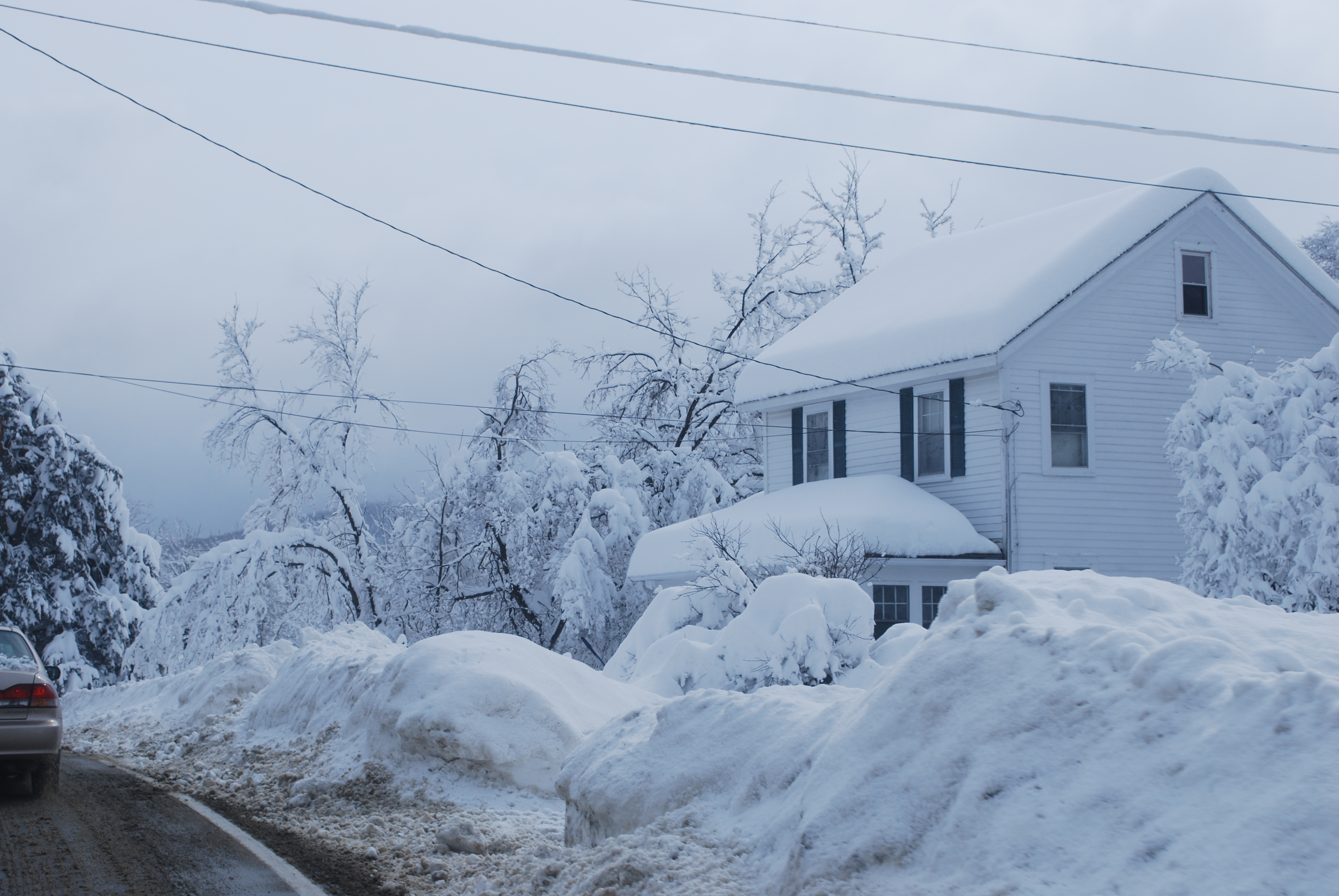 The effects of the Third North American blizzard of 2010 in Dutchess County, New York.